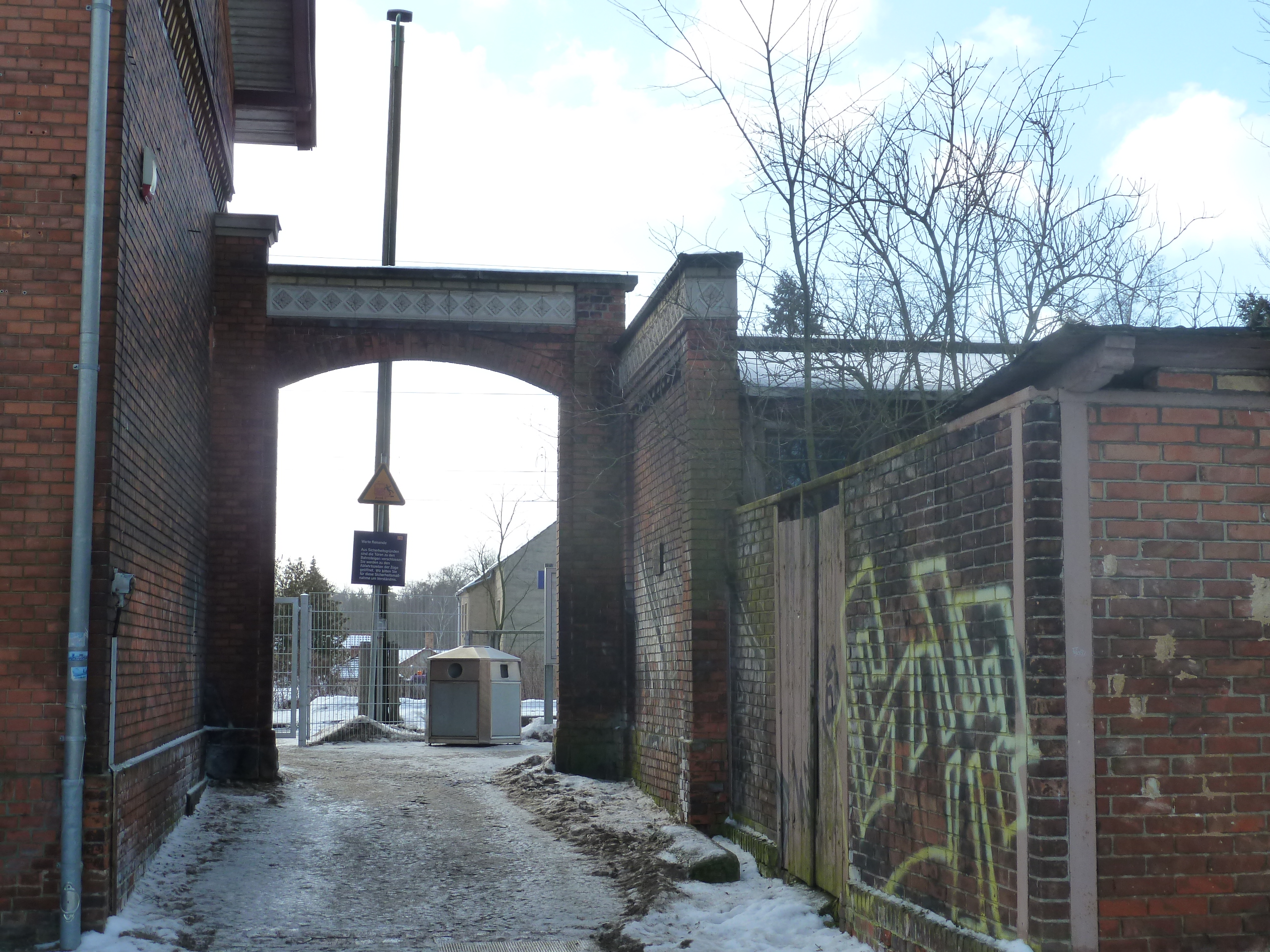 Wiesenburg (Mark) Railway station, access to platforms